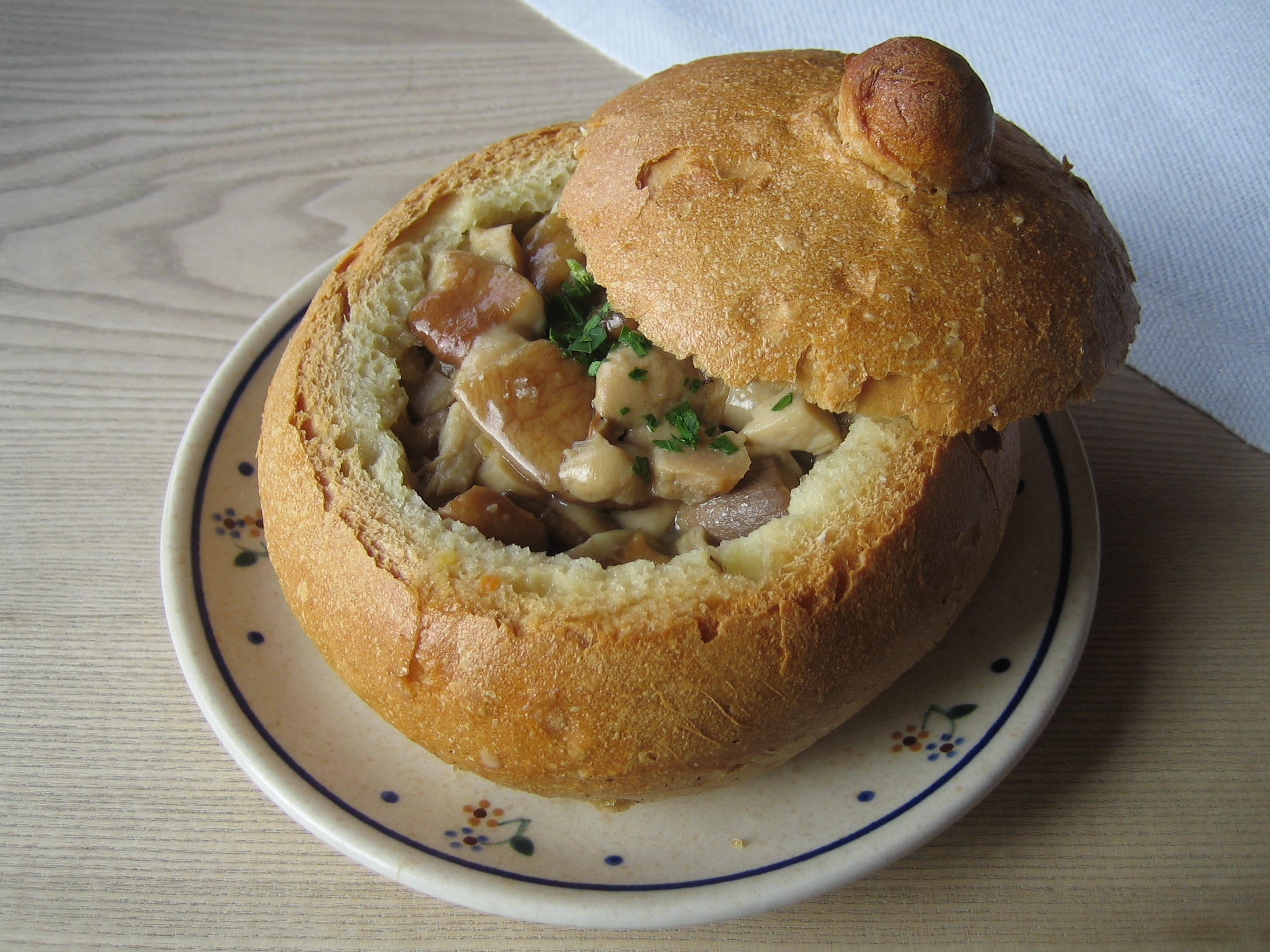 A porcini mushroom soup with square noodles served in a breadbowl in a Polish restaurant. The plate is an example of Bolesławiec pottery, which sometimes exhibits such floral patterns.